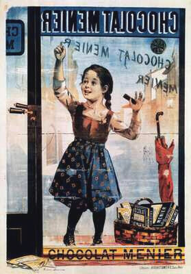 1893 Poster